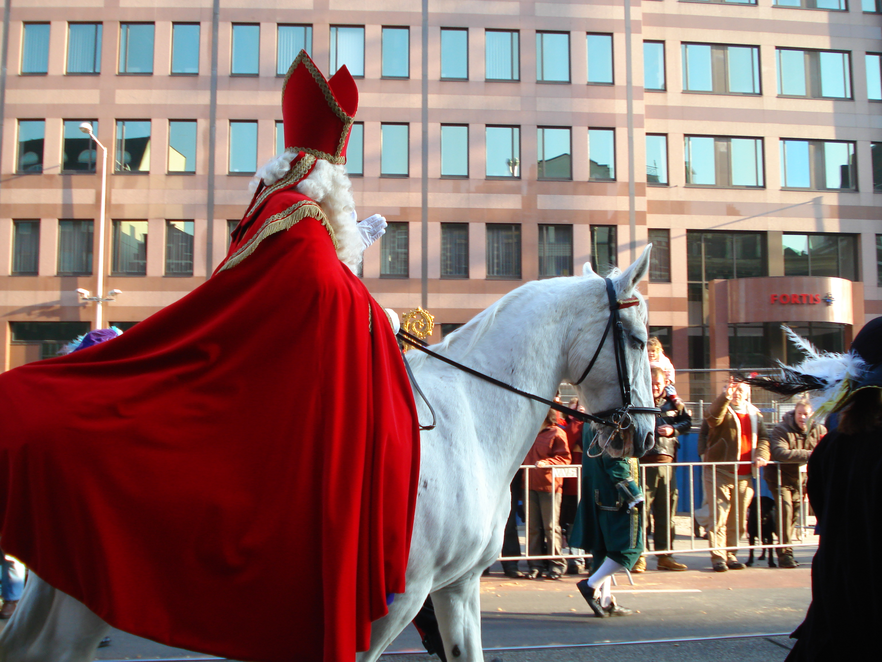 Sinterklaas intocht amsterdam, 2007.